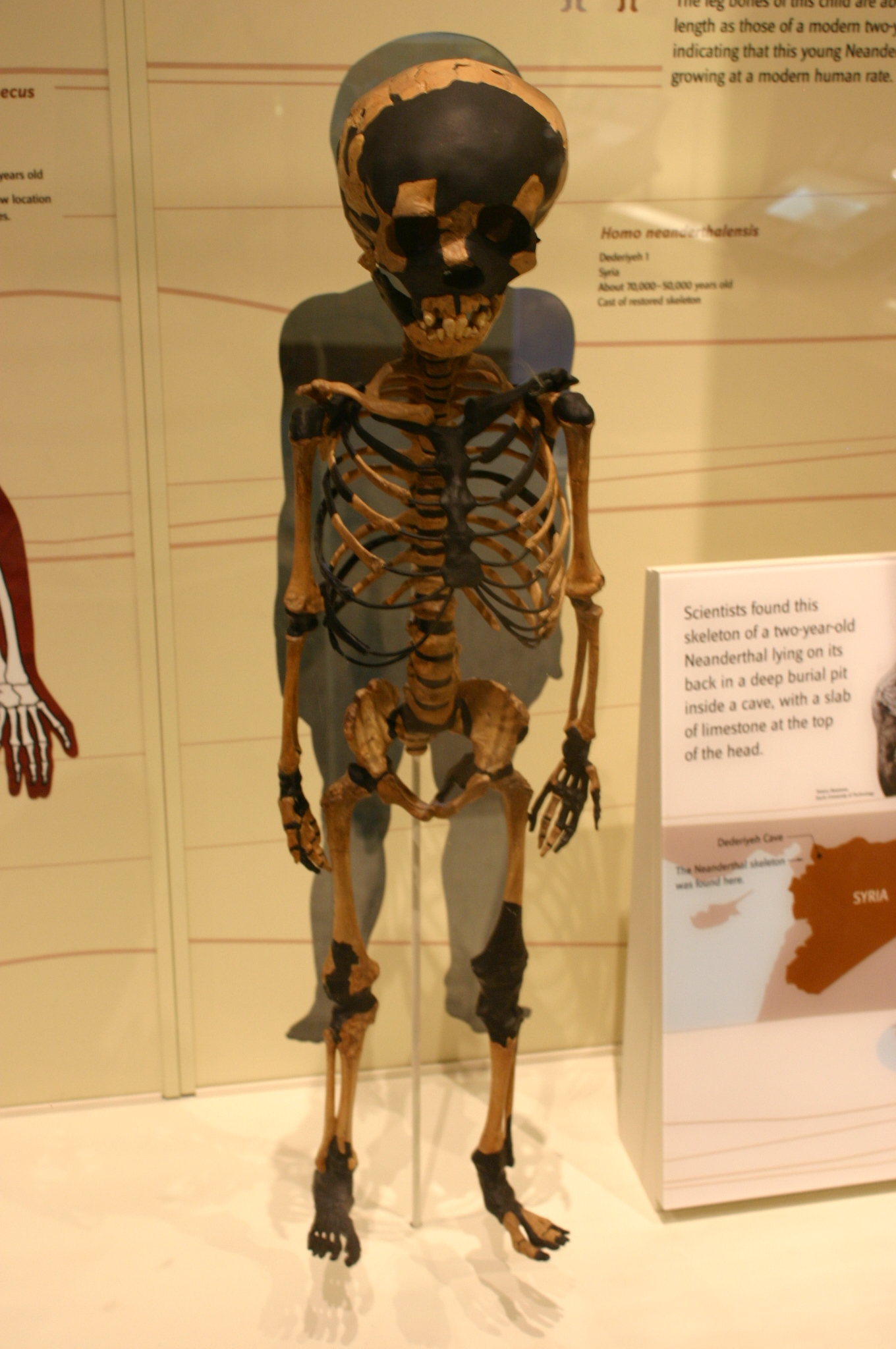 Taken at the David H. Koch Hall of Human Origins at the Smithsonian Natural History Museum.